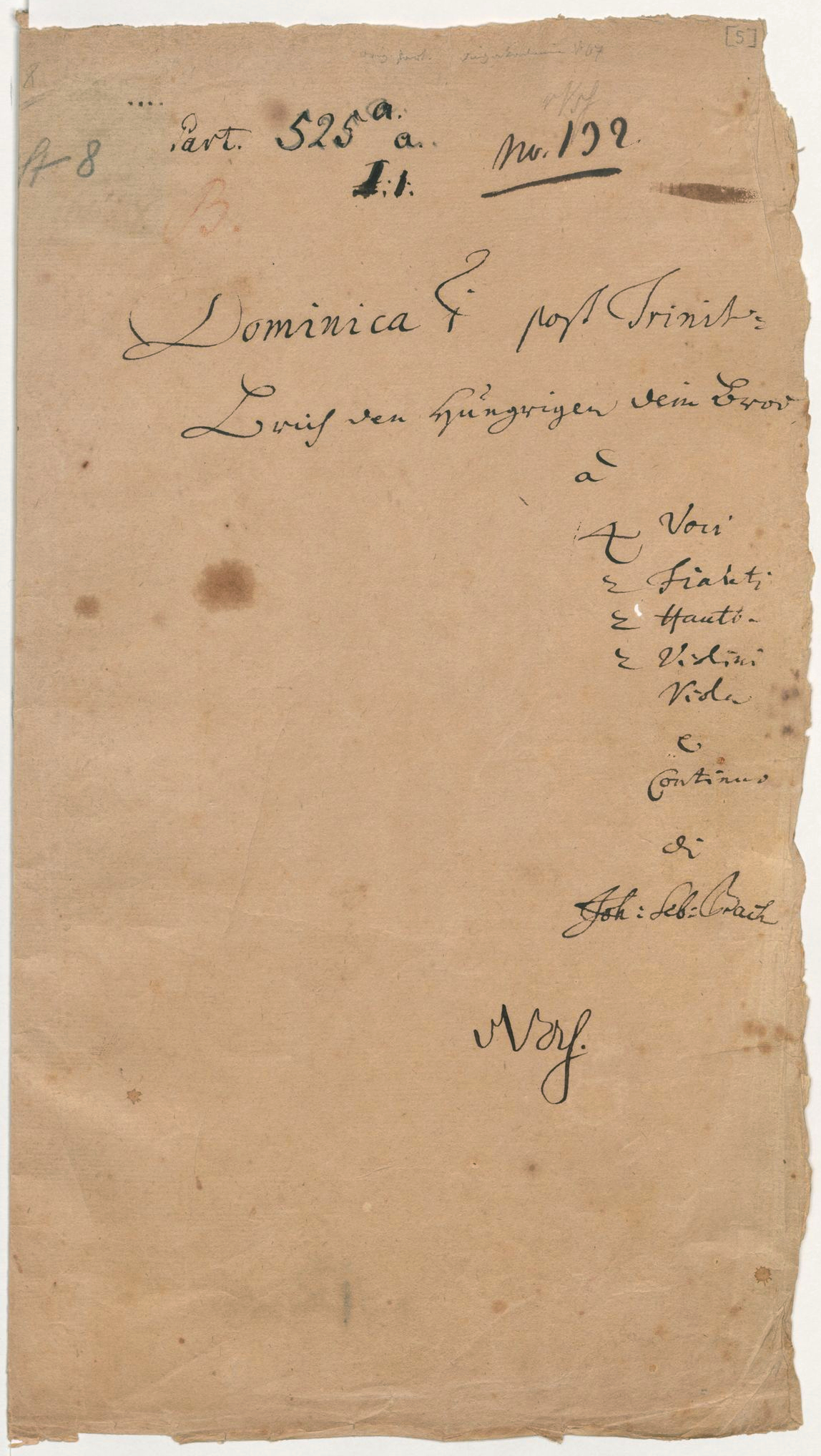 Autograph covering page for the vocal and orchestral parts of the cantata Brich dem Hungrigen dein Brot in high resolution